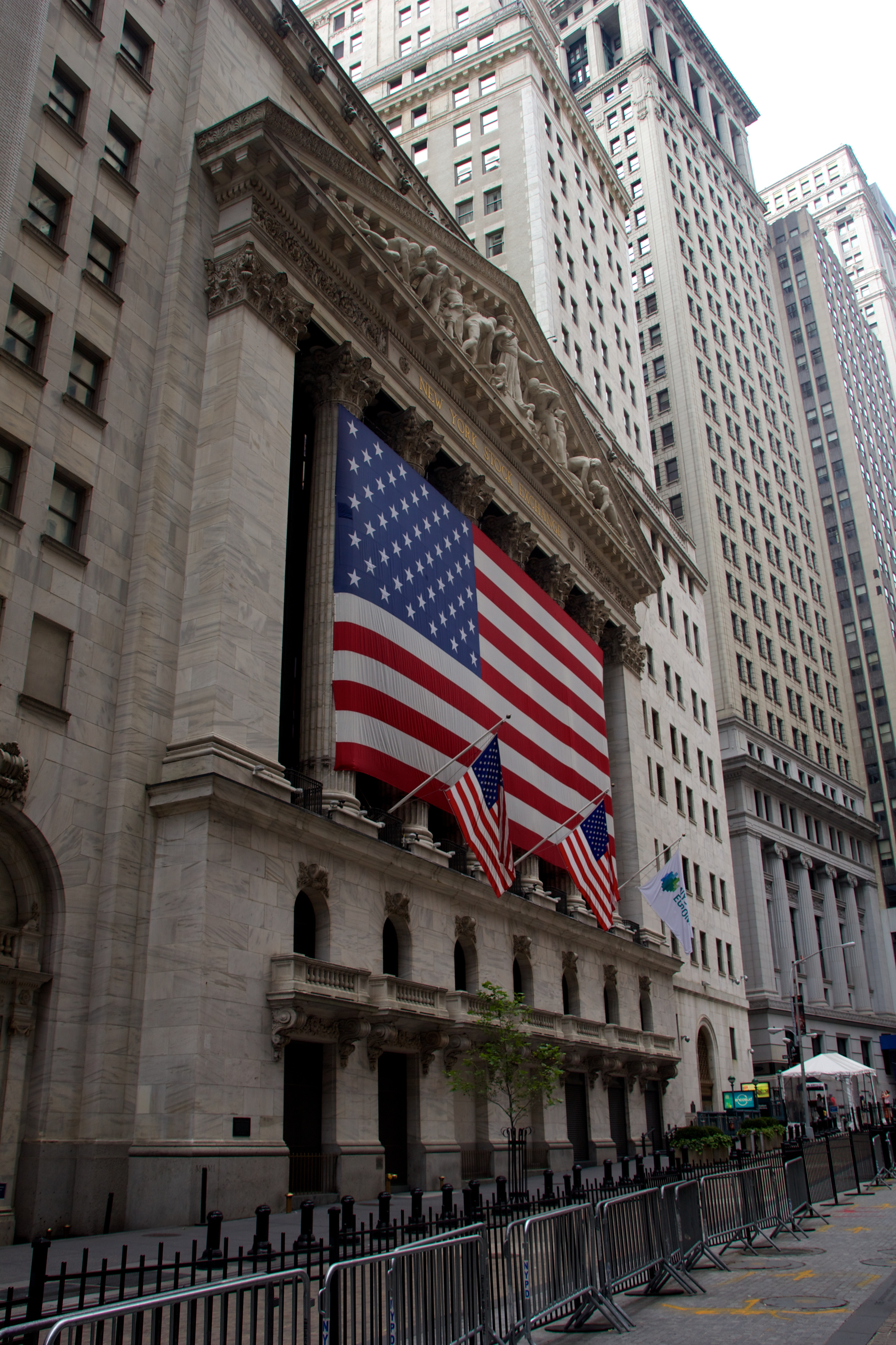 New York Stock Exchange, Wall Street, New York.